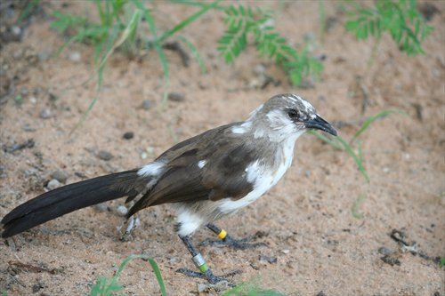 Photograph of the plumage of a fledgling Southern Pied Babbler (Turdoides bicolor)